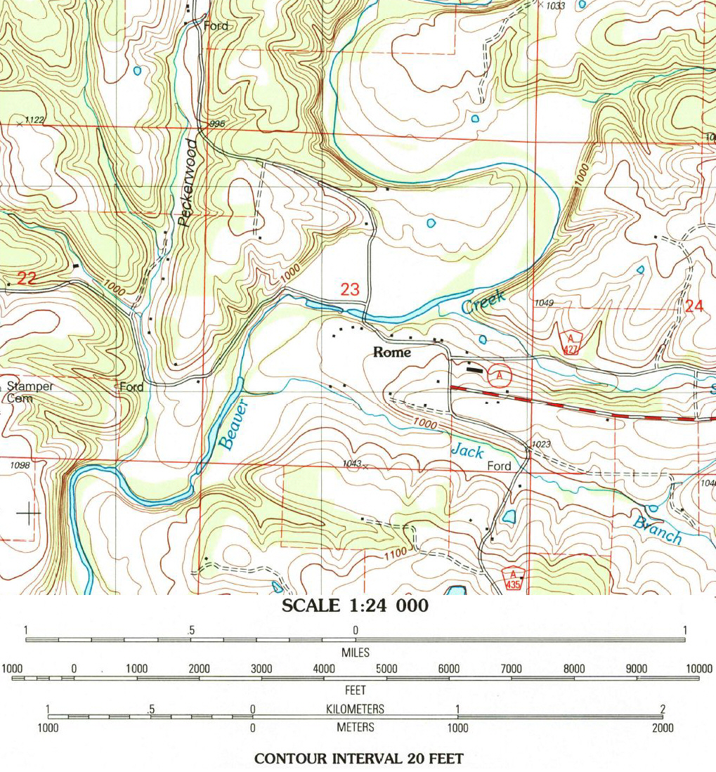 Section of the USGS Brownbranch, MO 7.5 minute topographic quad of 2004 w/scale